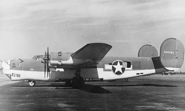 A modified B-24D of the Army Air Force Antisubmarine Command. The retracted antenna for the SCR-517 radar is visible just aft of the open bomb bay doors in the place where the ventral gun turret would normally be installed